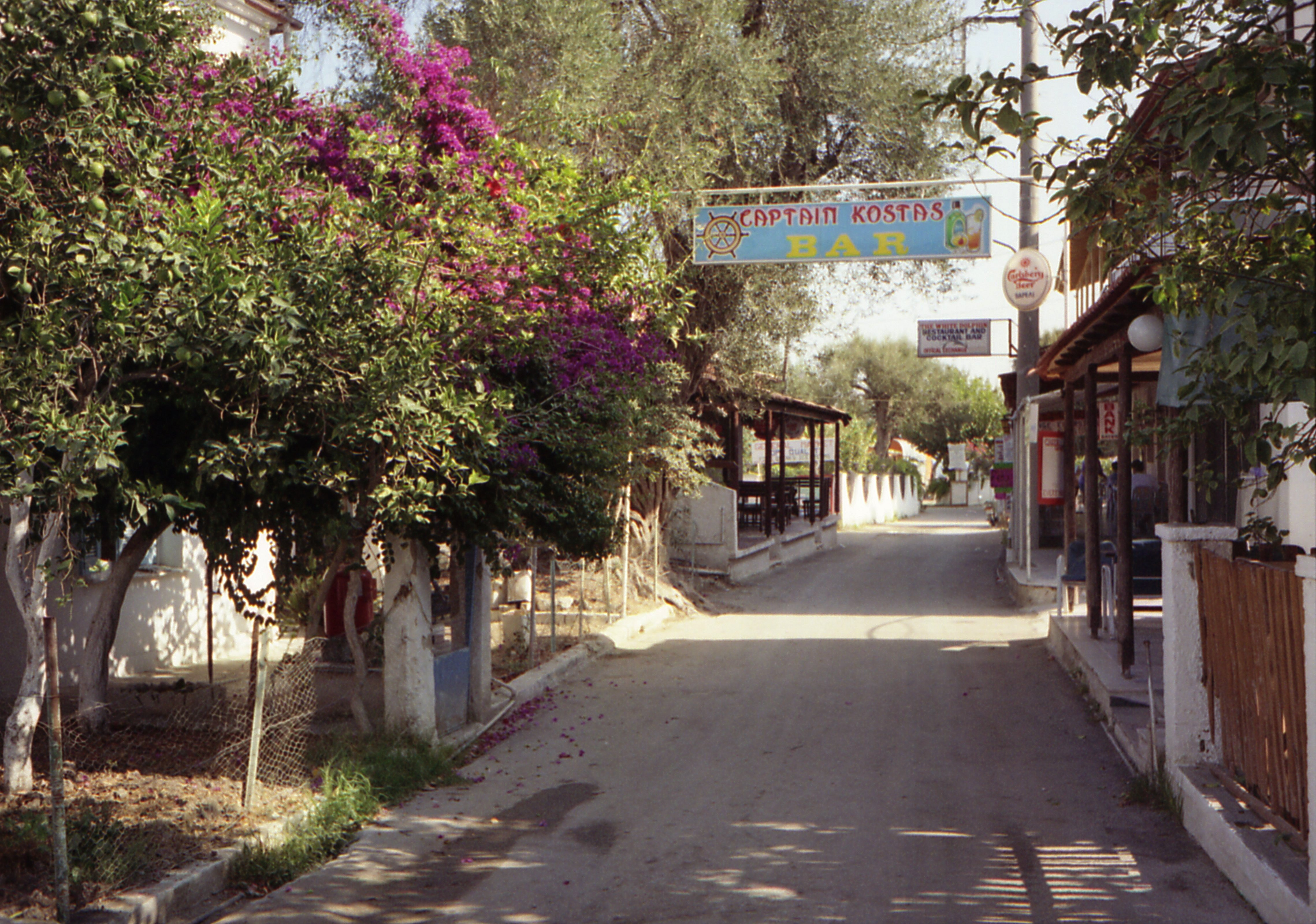 A peek at Kavos in October 1990. Camera: Olympus Pen F Half Frame SLR.